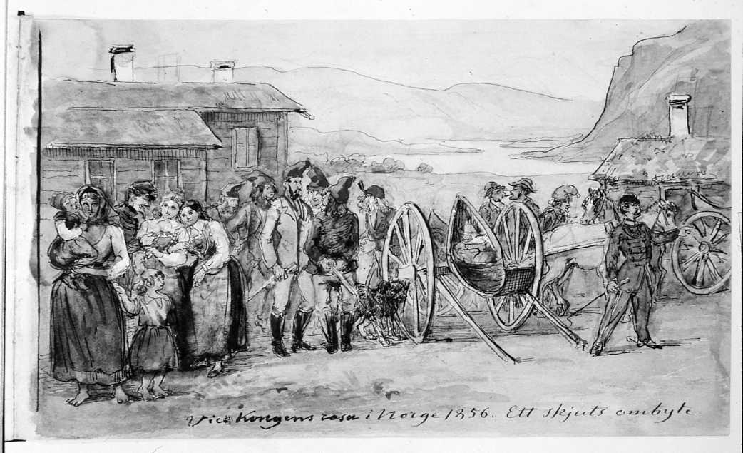 Changing horses during Charles XV's trip in Norway. Aquarelle by Fritz von Dardel 1856